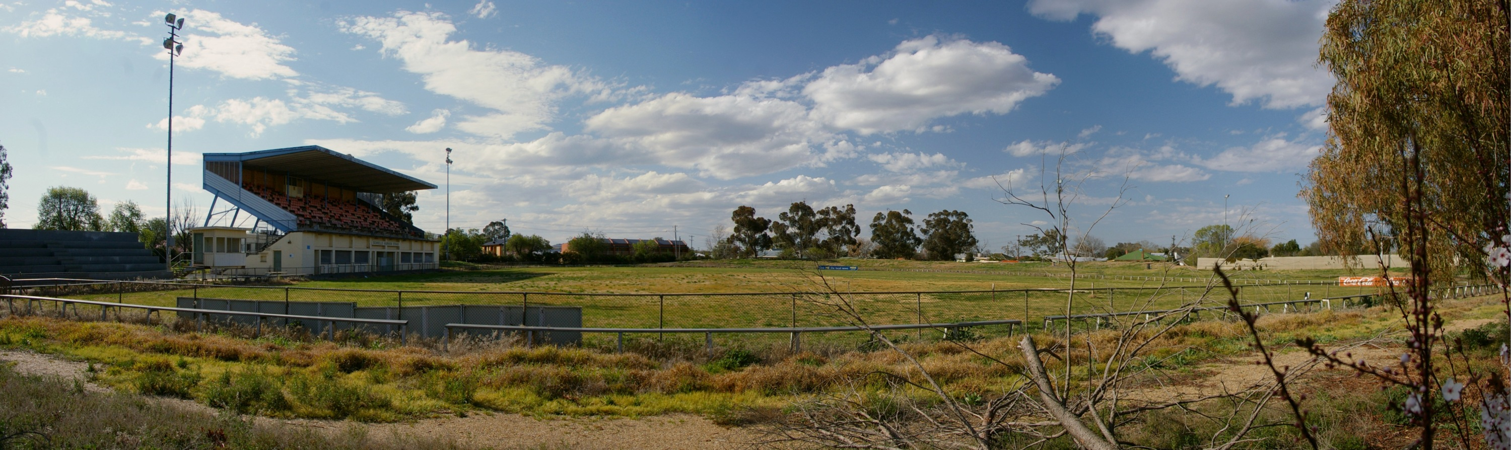 Disused Eric Weissel Oval and the Schnelle Harmond Stand was an Rugby League football ground.